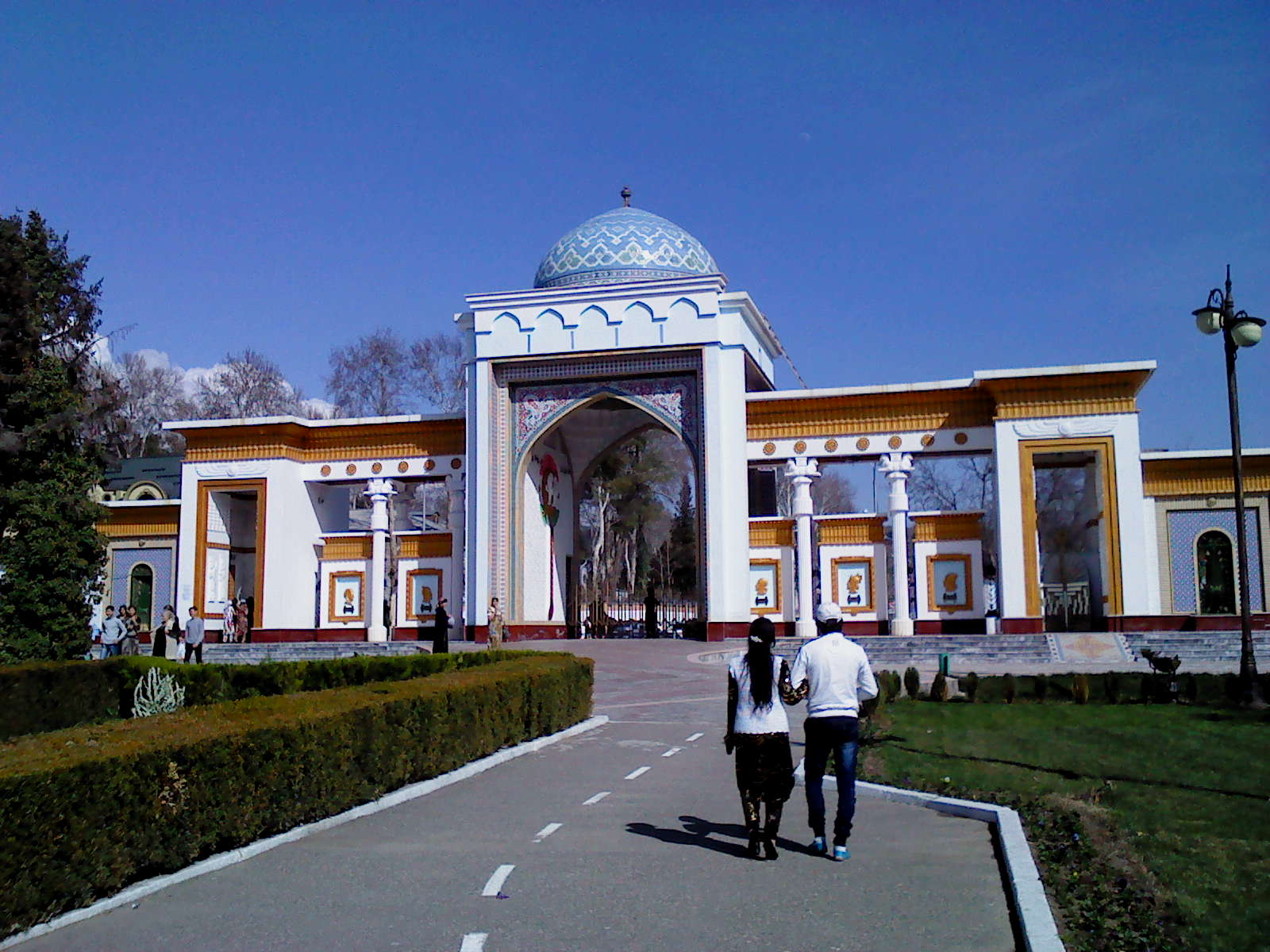 Botanical Garden, Dushanbe